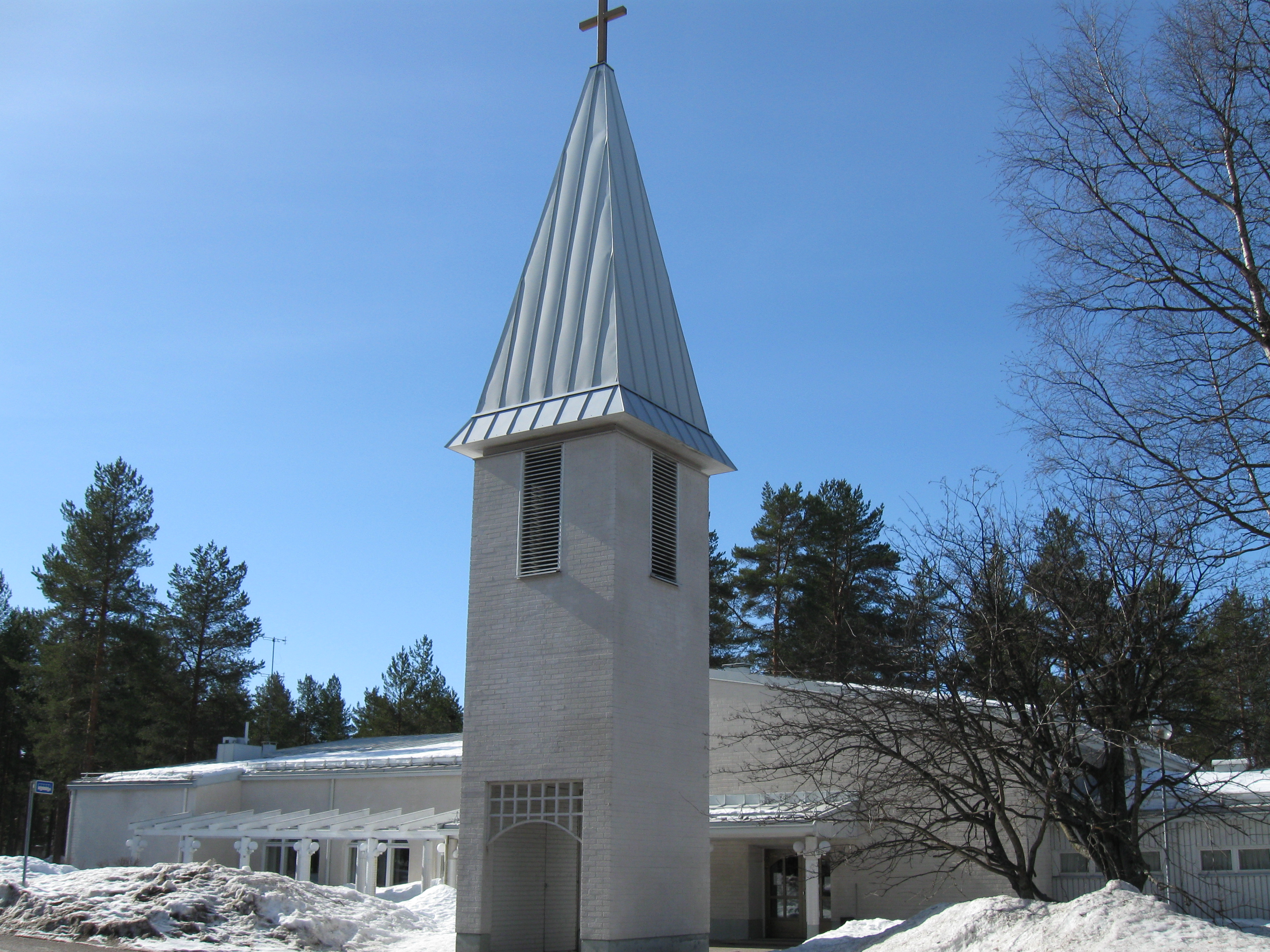 The Lutheran church in Vaala, Finland.